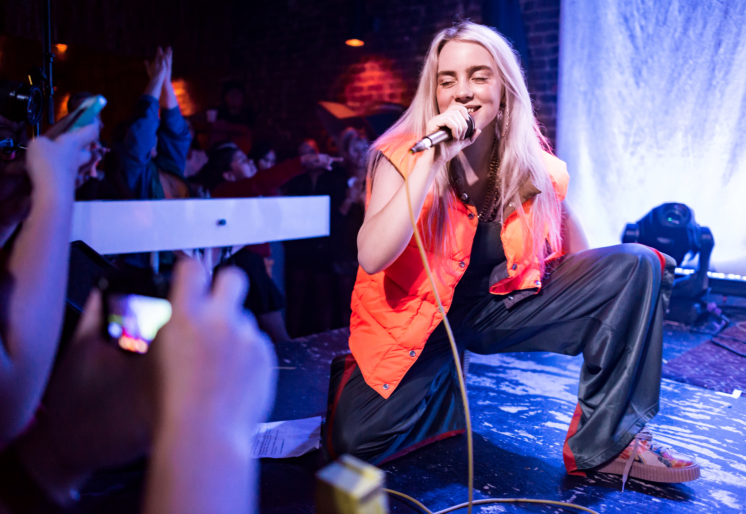 Billie Eilish performing live at The Hi Hat in Highland Park, Los Angeles, California, on Thursday, August 10, 2017.